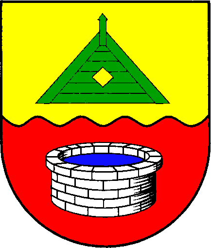 Coat of arms of the municipality Neudorf-Bornstein in Schleswig-Holstein, Germany.